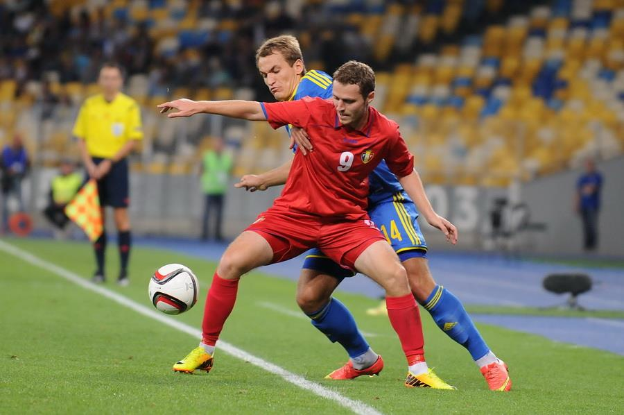 Yevhen Makarenko (nr. 14) and Alexandru Antoniuc (nr. 9) at the match Ukraine 1-0 Moldova, on 3 September 2014